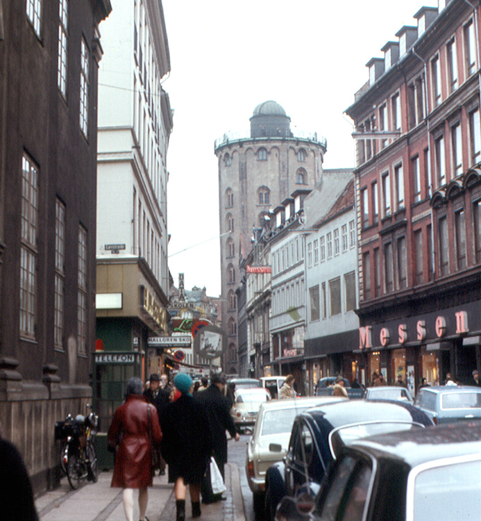 The Round Tower (Runde Tårn, Runde Taarn) was built as an observatory and university library in 1637-1642, in the reign of King Christian IV. It is 35 m (115 ft) high.